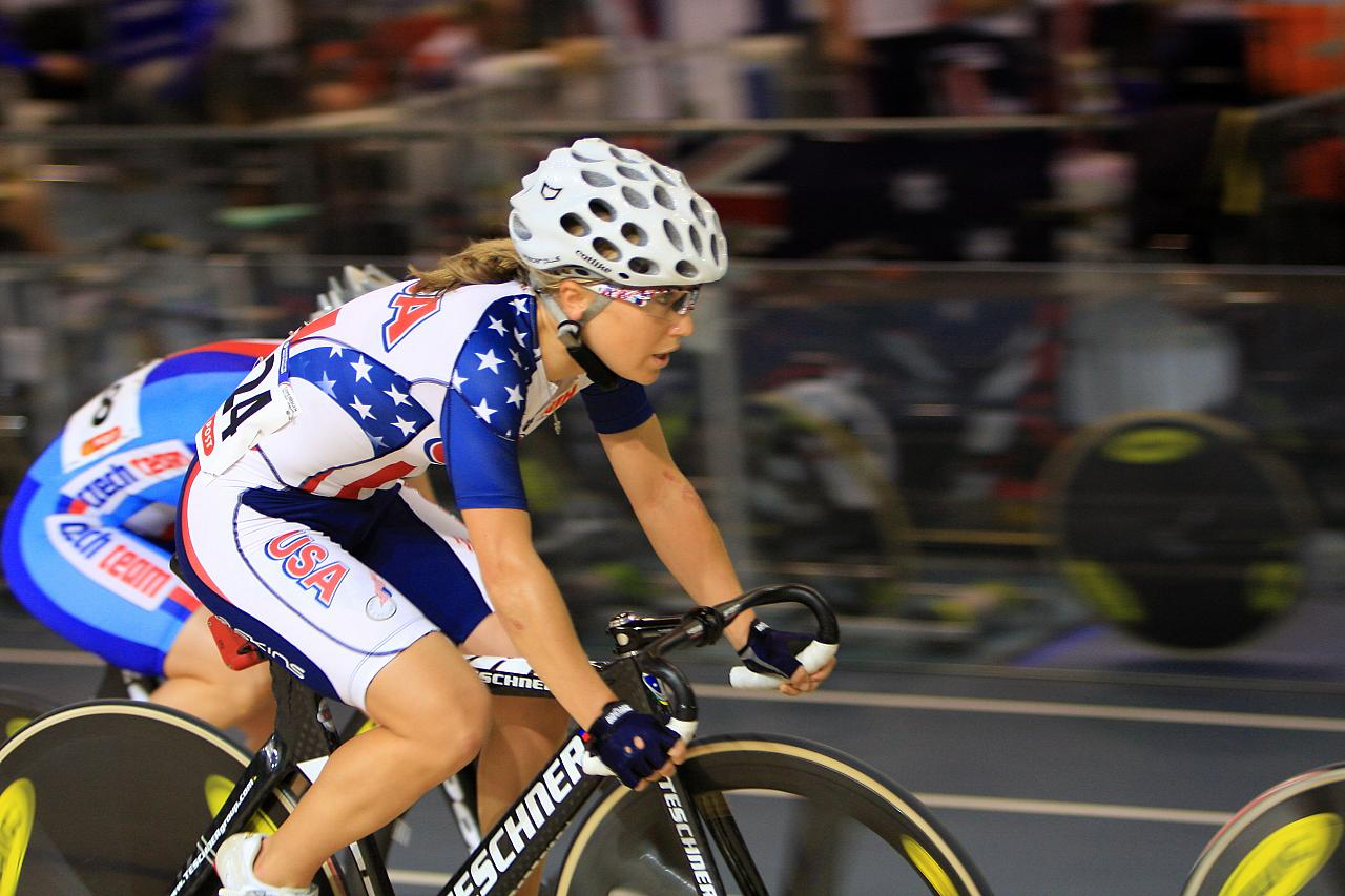 Shelley Evans in the points race at the 2010 Track Cycling World Cup in Copenhagen